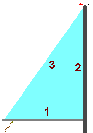 The sides of a sail achterlijk